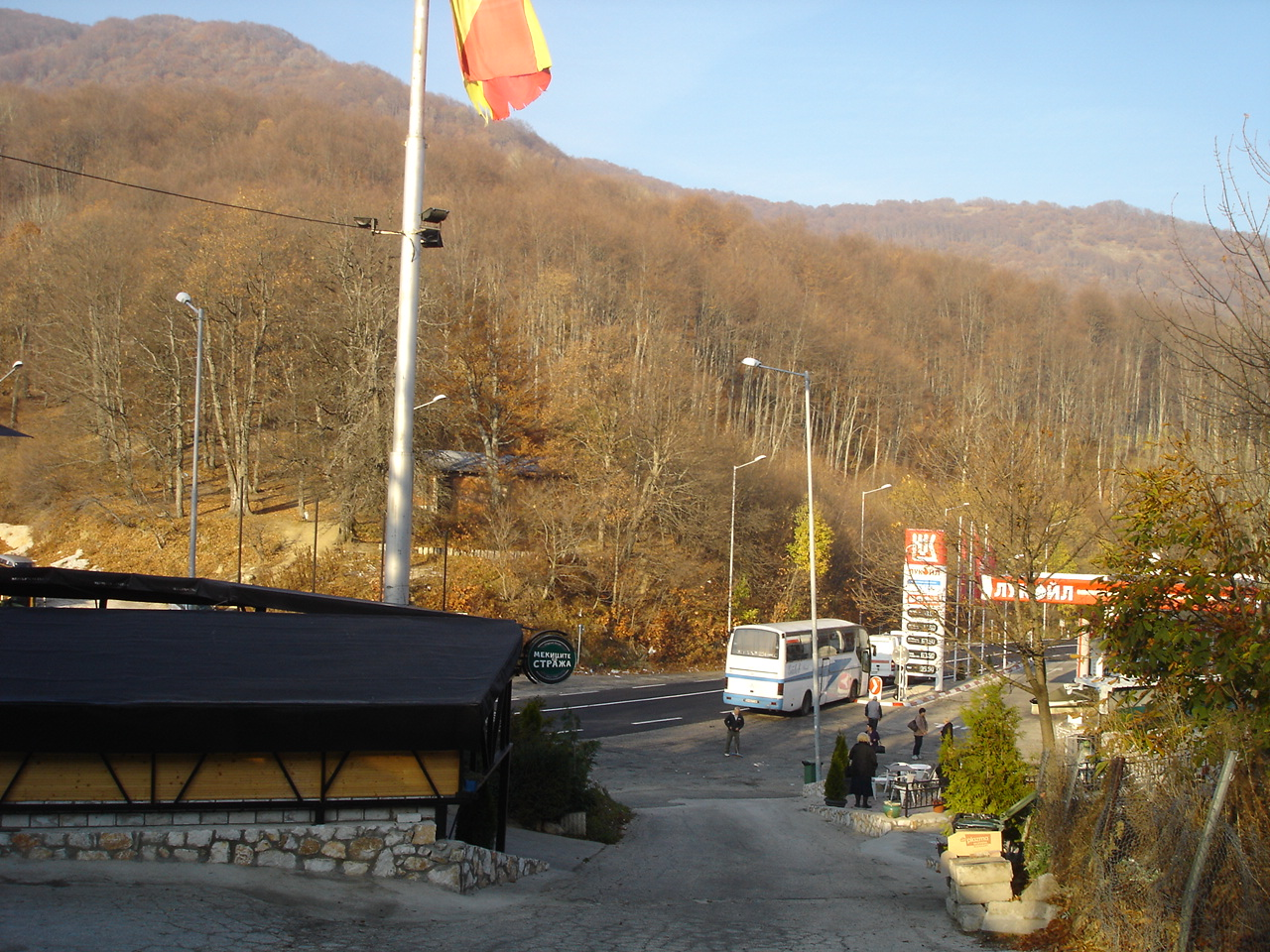 Mountain pass Strazha between Gostivar and Kichevo on the magistral road Skopje - Ohrid, Macedonia